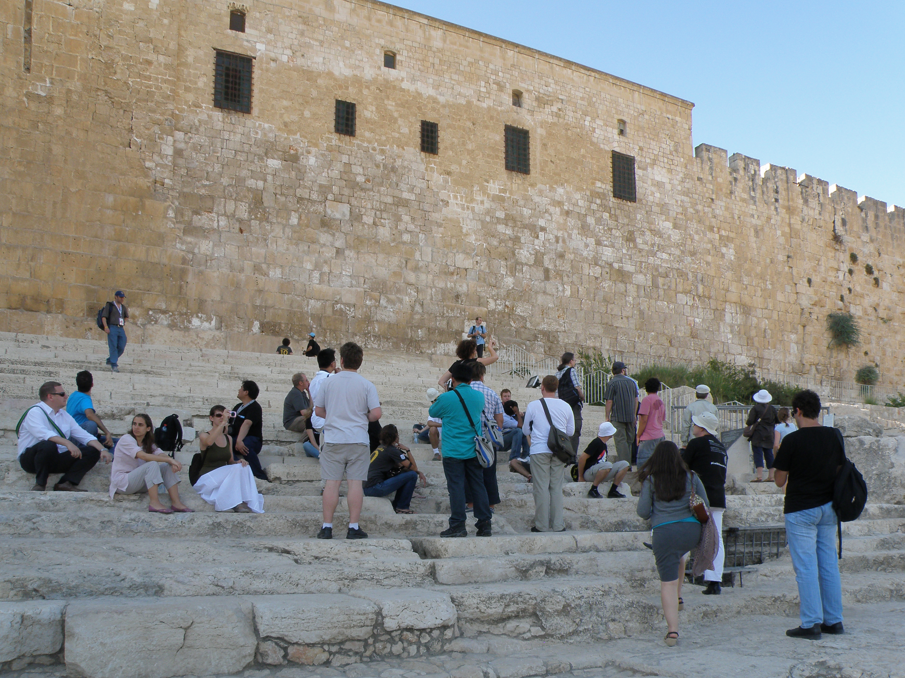 Wikimania 2011 - Jerusalem Tour